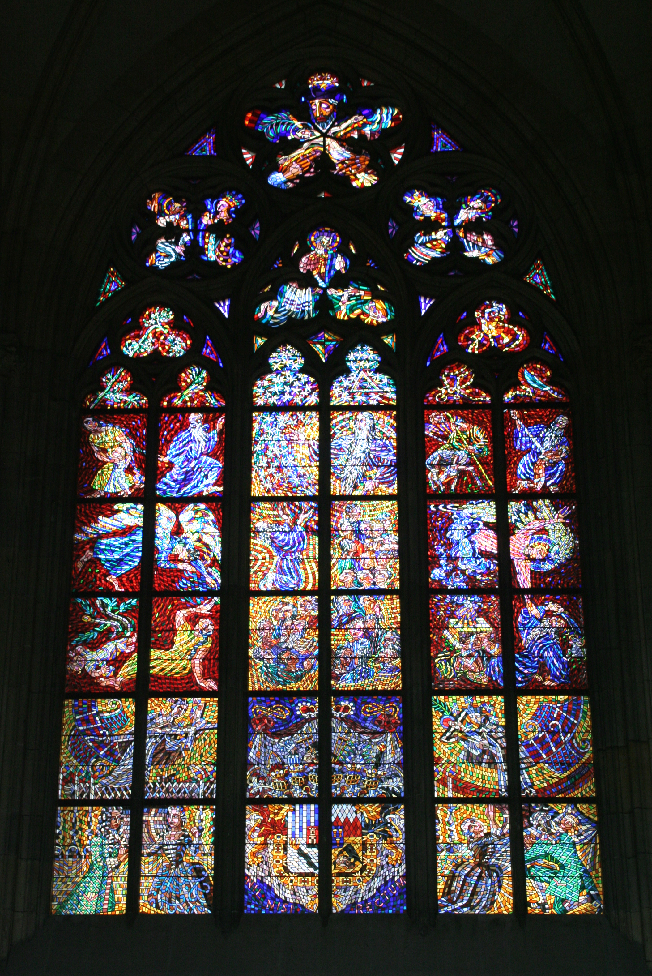 Stained glass window St Vitus's Cathedral 8